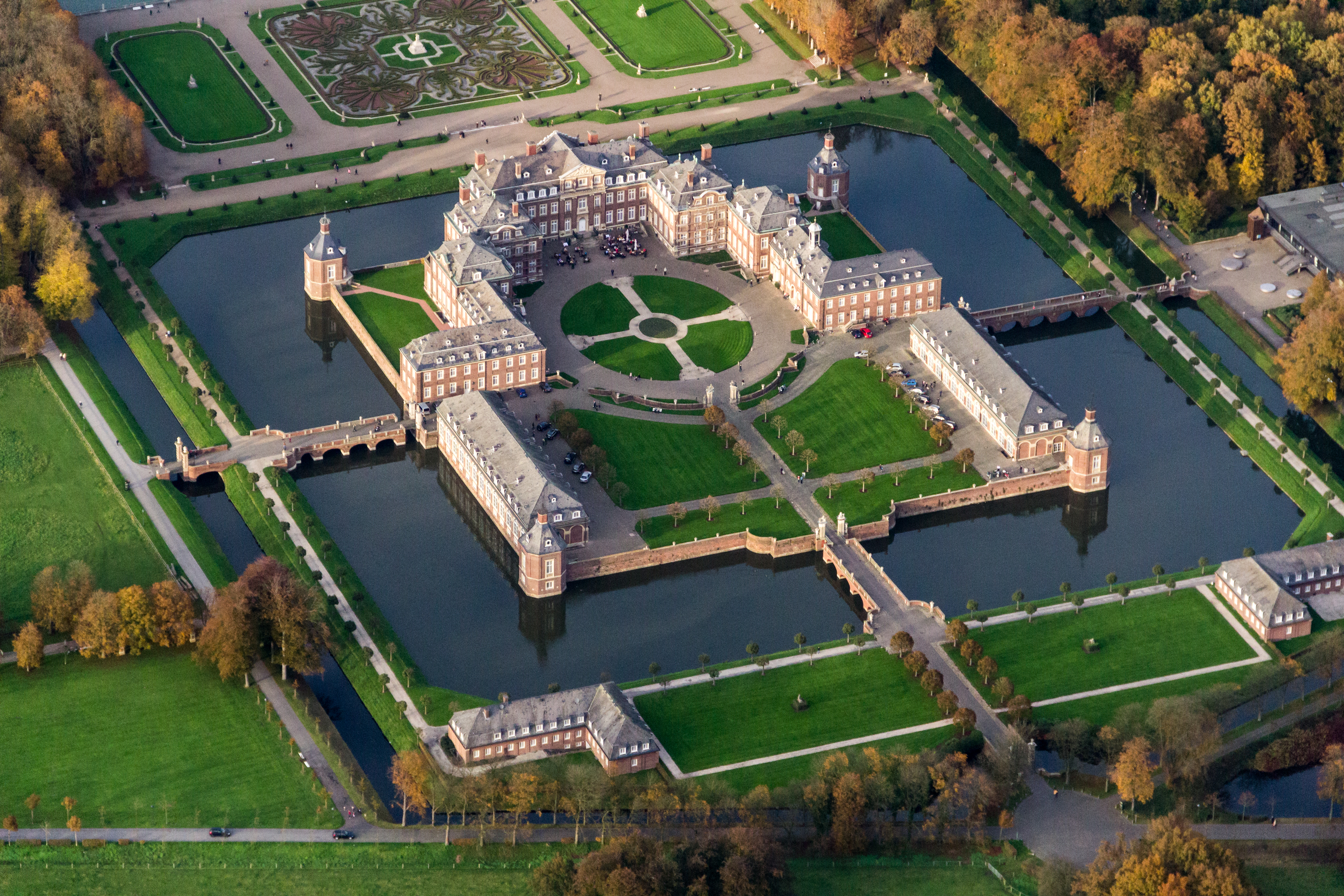 Nordkirchen Castle, Nordkirchen, North Rhine-Westphalia, Germany